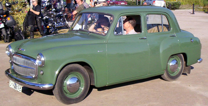 "Phase VIII" Hillman Minx Special 4-door Saloon of 1955. The Phase VIII variant was introduced in 1954.